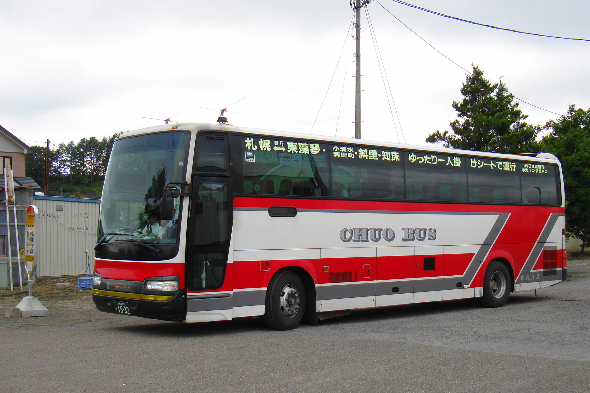 "Eagle Liner" Sapporo to Shiretoko National Park